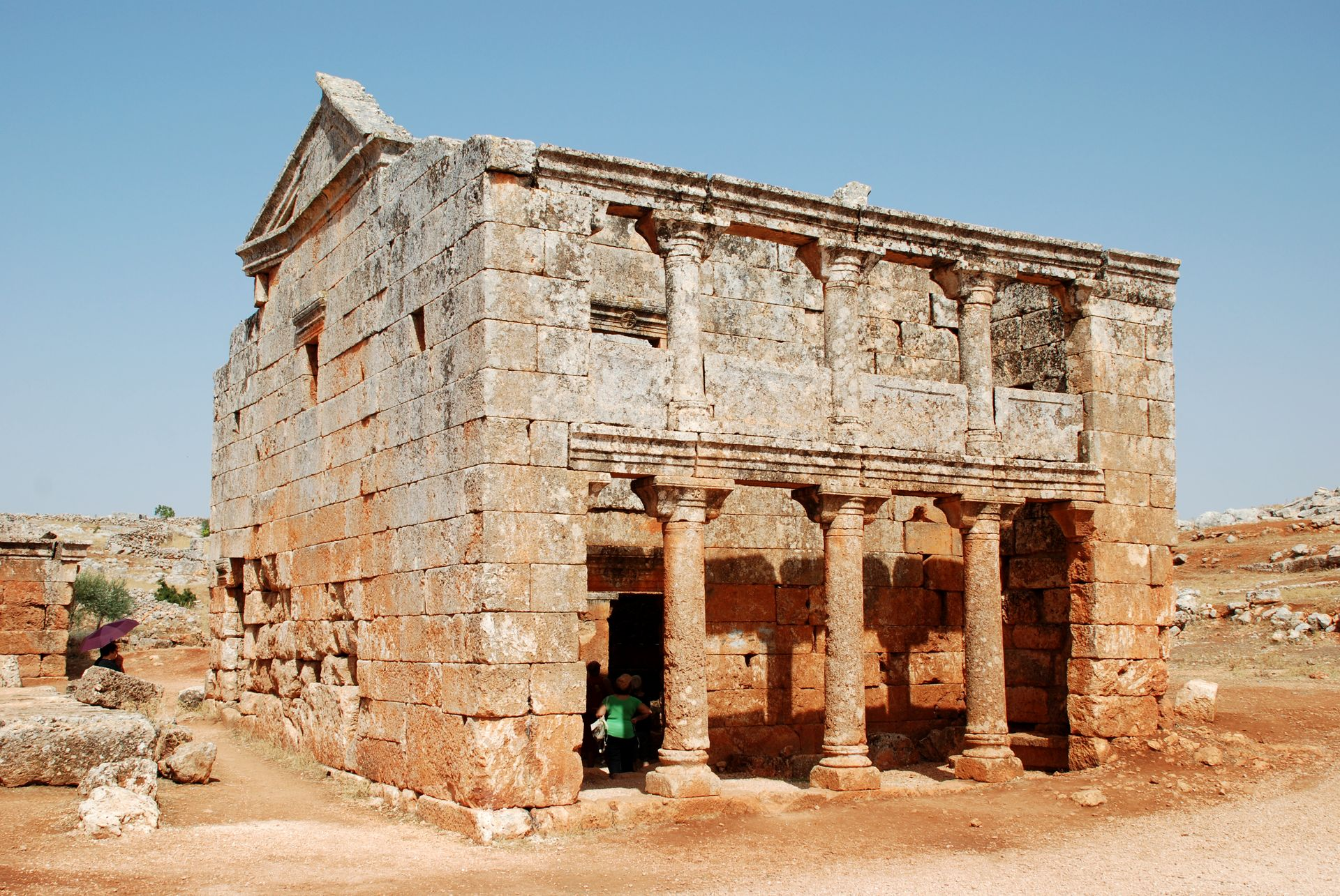 Serjilla, dead city in Syria, andron